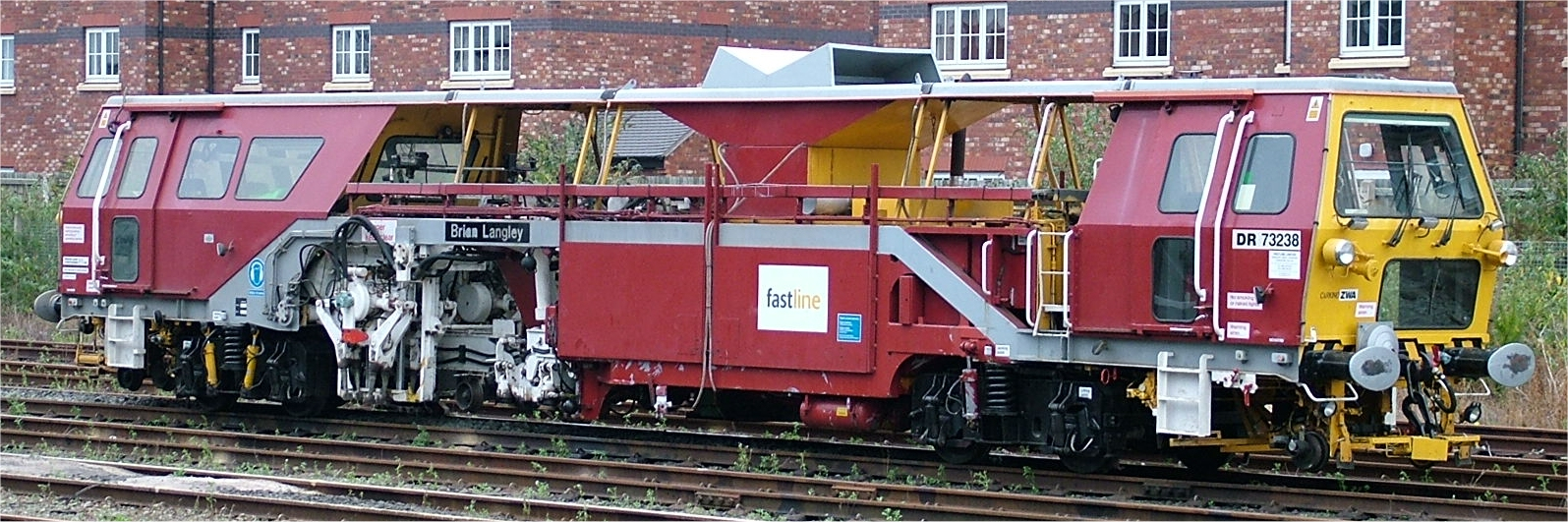 Rail track tamping machine DR73238 in Jarvis Rail & Fastline livery at Chester railway station Photo by and copyright Tagishsimon 9th October 2005